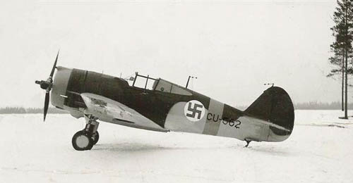 Curtiss Hawk 75A-3 CU-562 (s/n 13805) at Kuorevesi Depot.